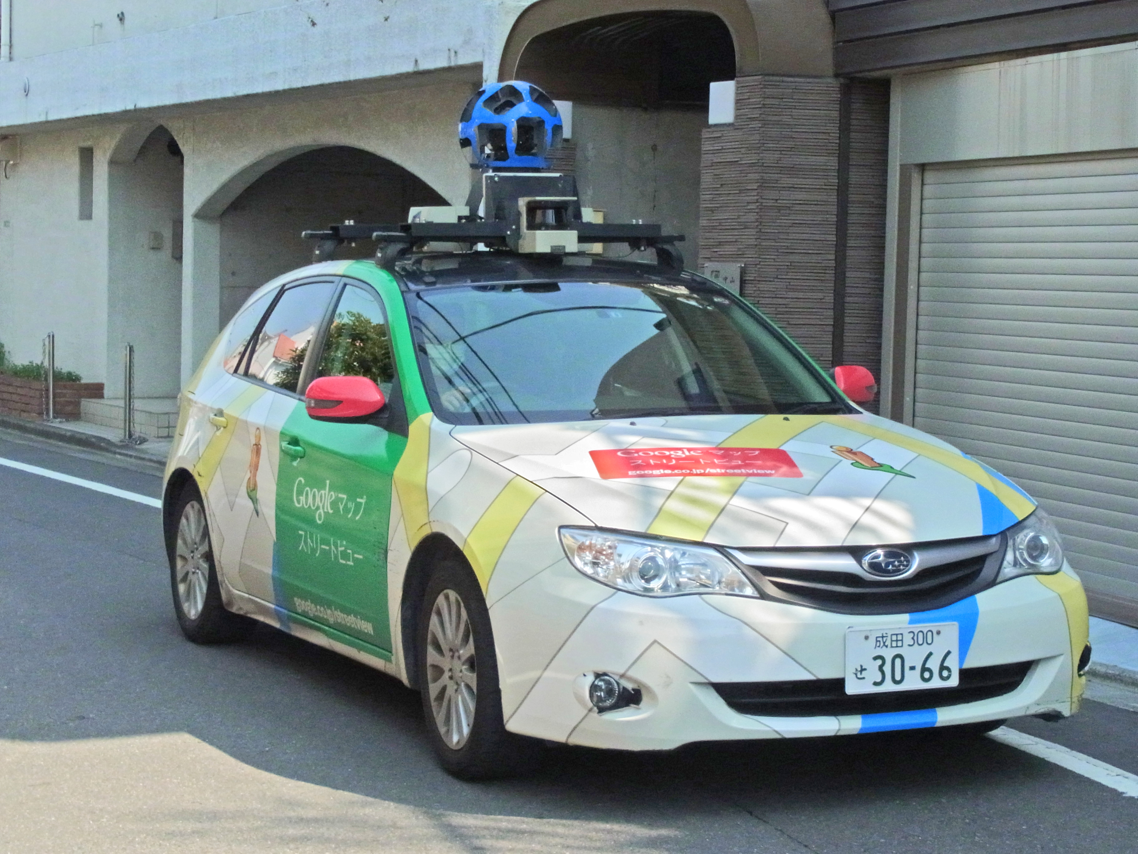 Google Street View Car. Taken on March 28, 2014 at Setagaya-ku, Tokyo, Japan